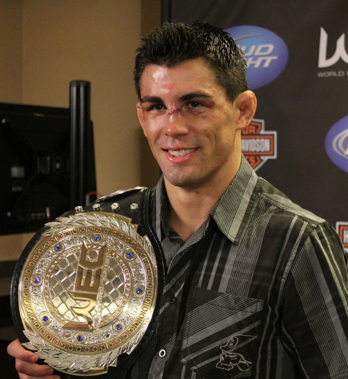 Dominick Cruz holding WEC belt